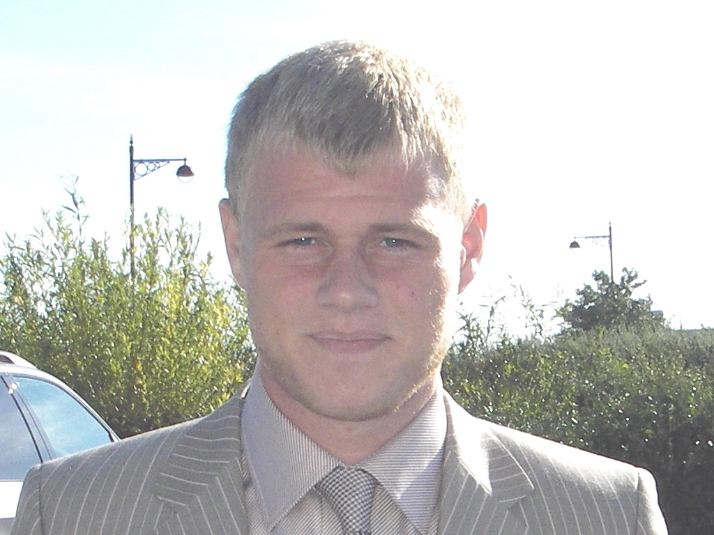 James McEveley, Scottish footballer.